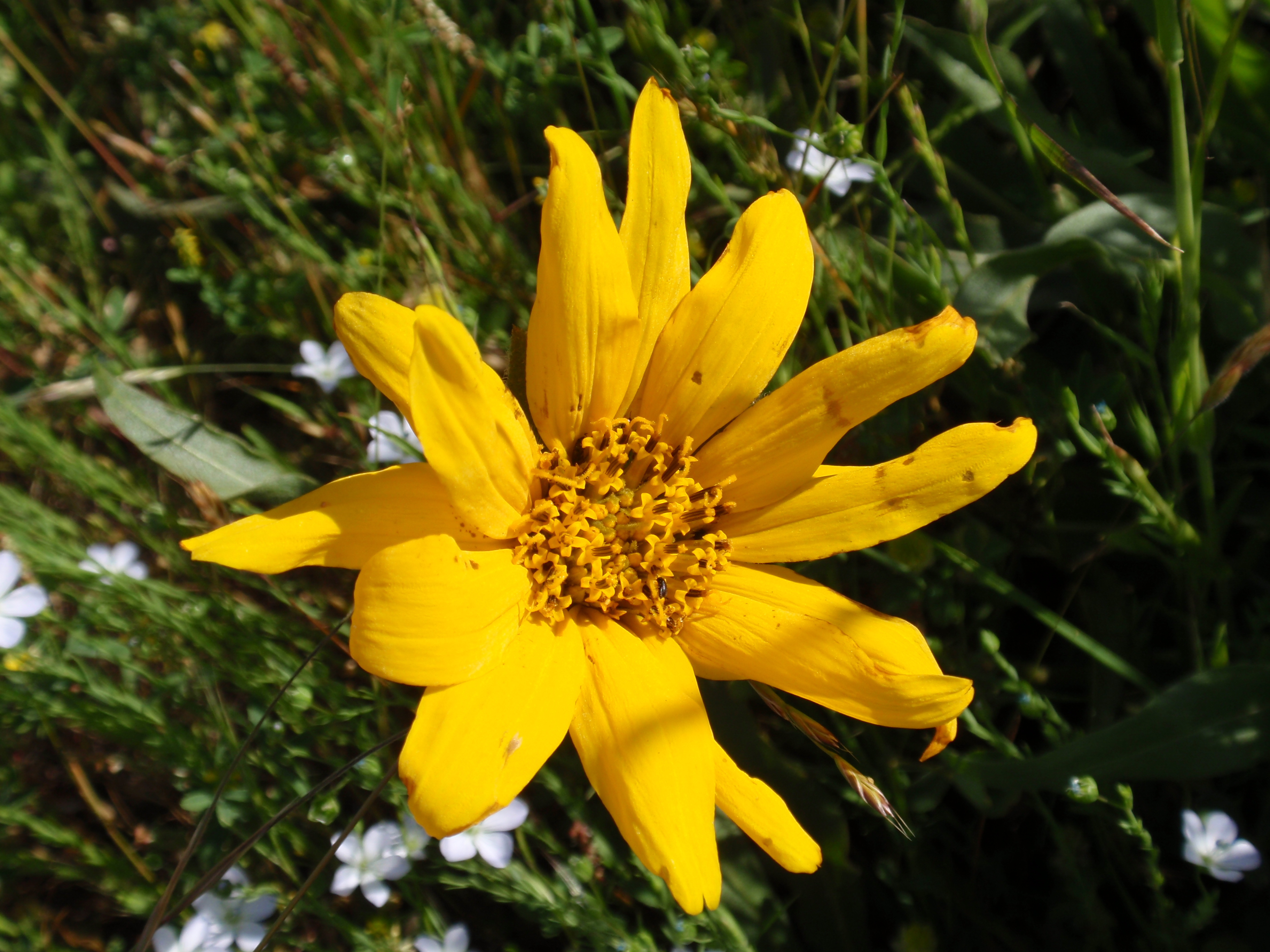 Wyethia angustifolia in Edgewood County Park, San Carlos, California, USA.